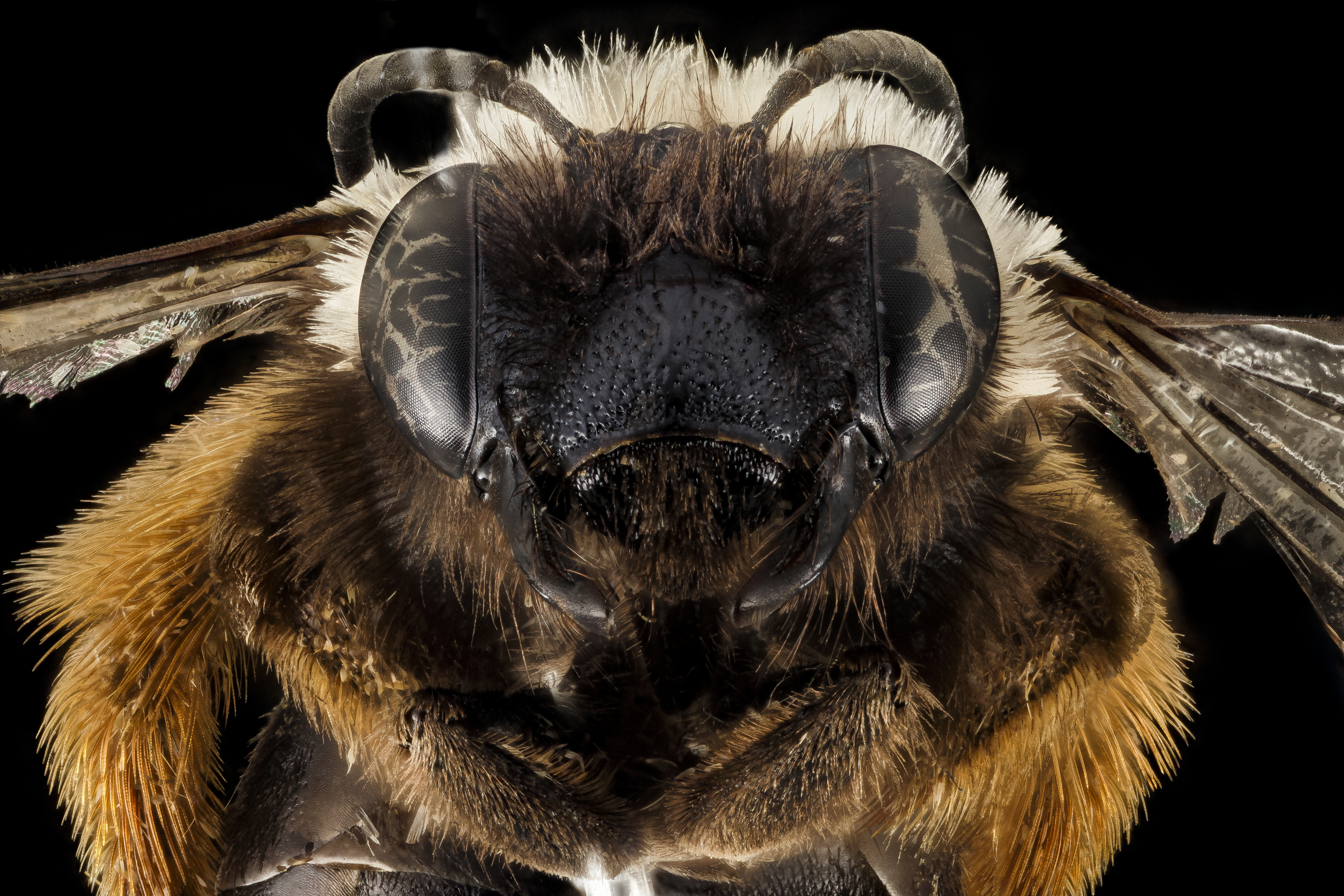 A rather dirty western Eucera fulvitarsis from Fossil Butte National Monument. Nice combination of blacks and ochers. Hopefully we will get a better specimens at some point. Photo by Maggie Yuan. 18:13, 17 April 2017 (UTC)18:13, 17 April 2017 (UTC) 0 18:13, 17 April 2017 (UTC)18:13, 17 April 2017 (UTC) All photographs are public domain, feel free to download and use as you wish. Photography Information: Canon Mark II 5D, Zerene Stacker, Stackshot Sled, 65mm Canon MP-E 1-5X macro lens, Twin Macro Flash in Styrofoam Cooler, F5.0, ISO 100, Shutter Speed 200 Beauty is truth, truth beauty - that is all Ye know on earth and all ye need to know " Ode on a Grecian Urn" John Keats You can also follow us on Instagram - account = USGSBIML Want some Useful Links to the Techniques We Use? Well now here you go Citizen: Art Photo Book: Bees: An Up-Close Look at Pollinators Around the World Basic USGSBIML set up: USGSBIML Photoshopping Technique: Note that we now have added using the burn tool at 50% opacity set to shadows to clean up the halos that bleed into the black background from "hot" color sections of the picture. PDF of Basic USGSBIML Photography Set Up: ftp://ftpext.usgs.gov/pub/er/md/laurel/Droege/How%20to%20Take%20MacroPhotographs%20of%20Insects%20BIML%20Lab2.pdf Google Hangout Demonstration of Techniques: or Excellent Technical Form on Stacking: Contact information: Sam Droege 301 497 5840